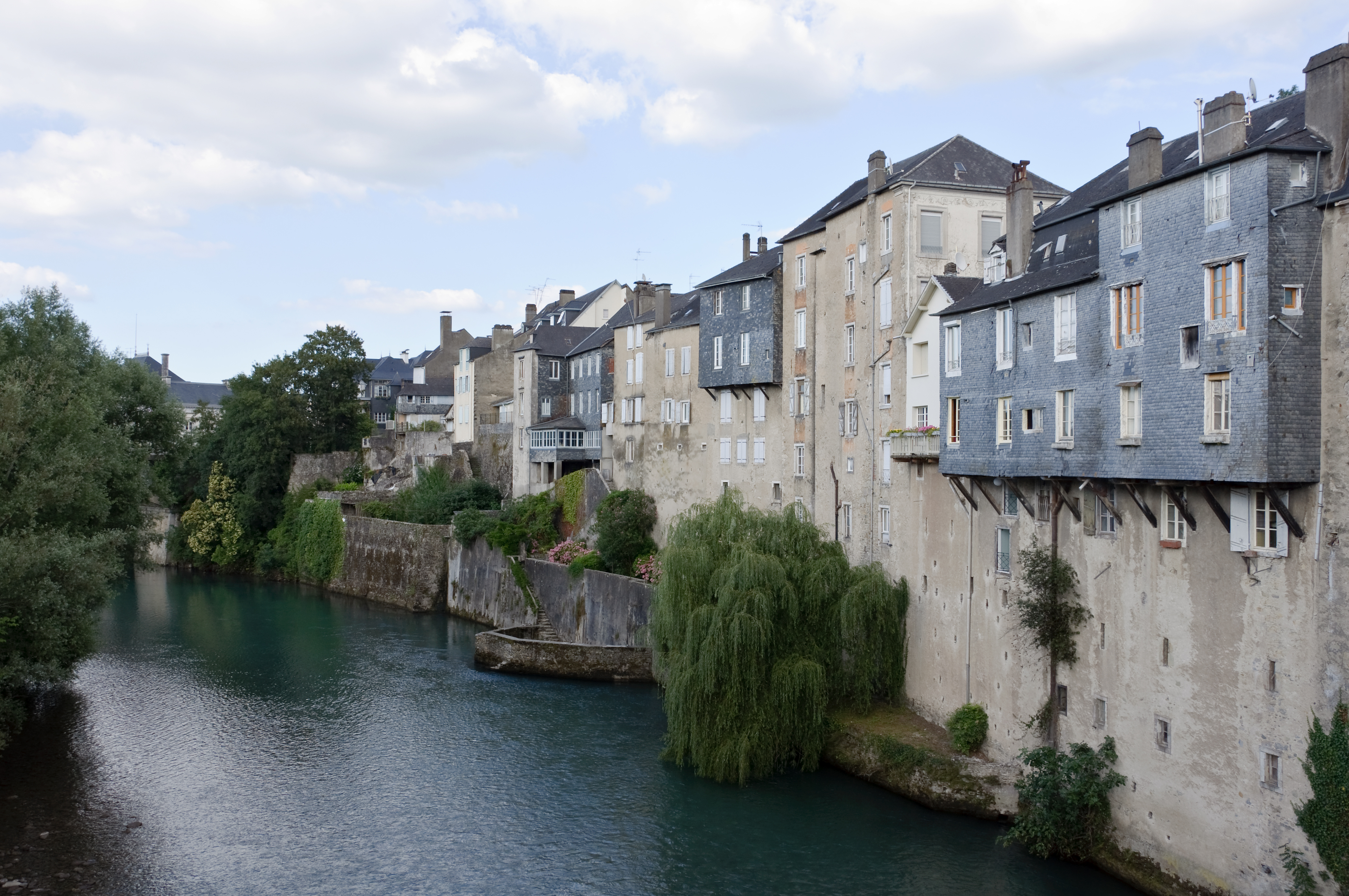 Oloron-Sainte-Marie (Pyrénées-Atlantiques, France): houses with slate-hung oriel windows along the Gave d'Aspe.